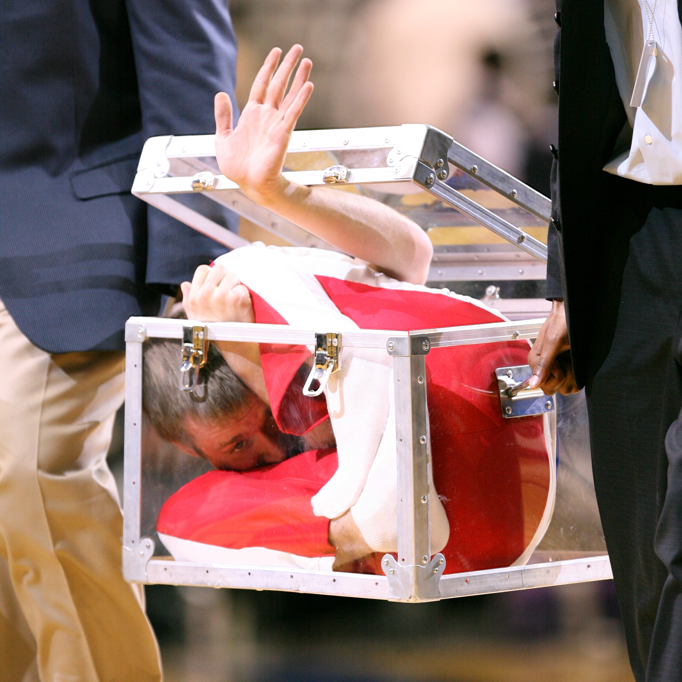 Contortionist fitting himself in a trunk.